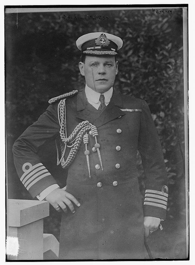 Rosslyn Wemyss, 1st Baron Wester Wemyss in 1916